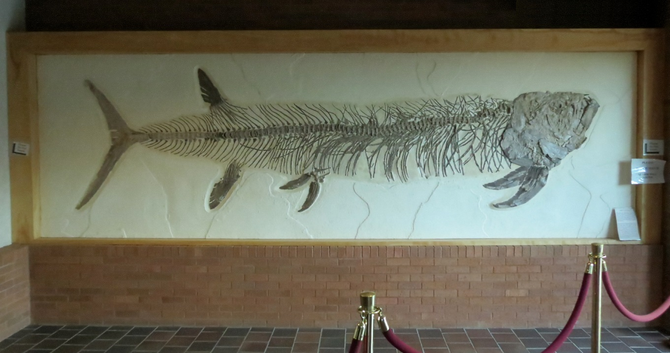 Xiphactinus audax, Western Wyoming Community College / 2013